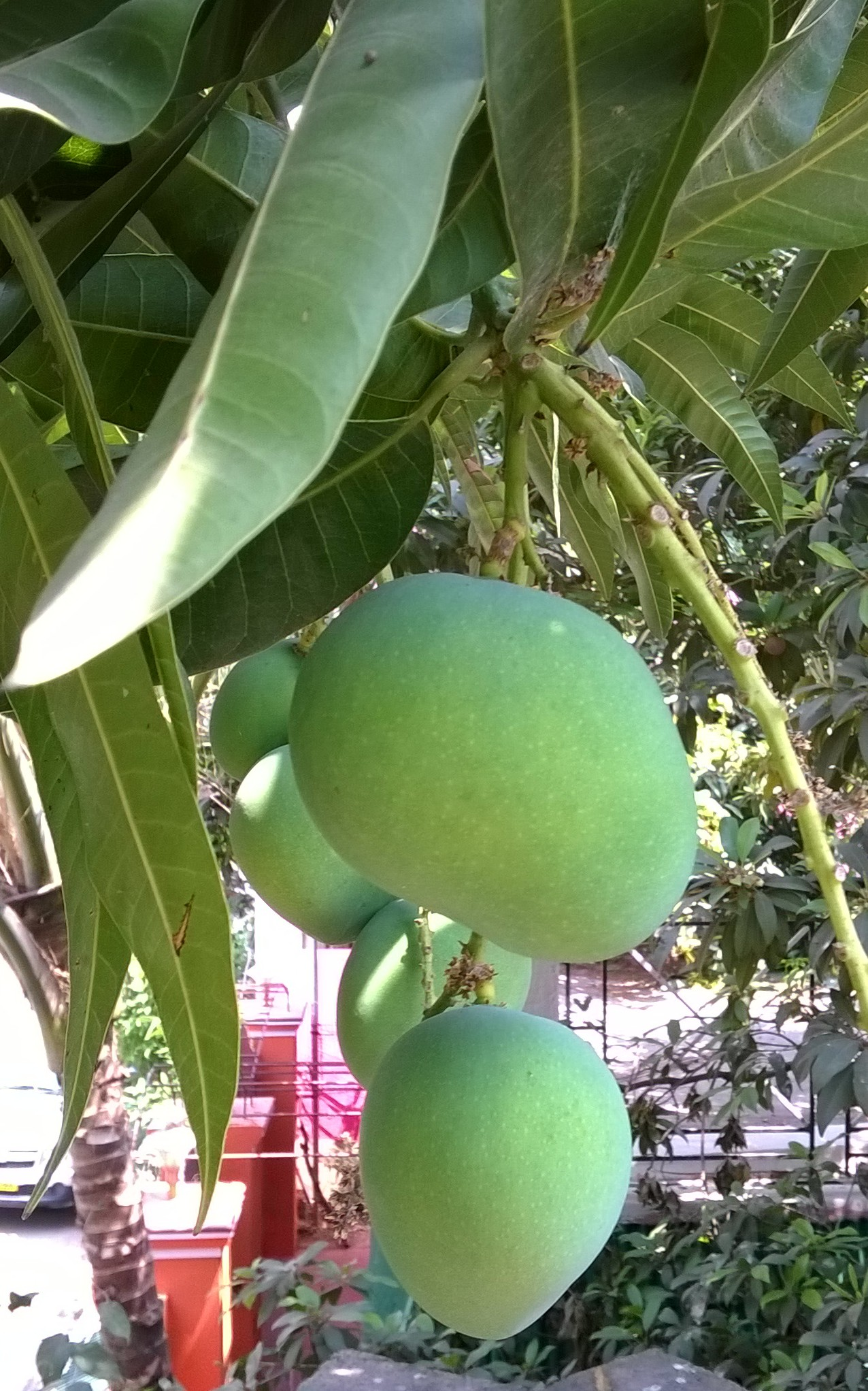 Nature